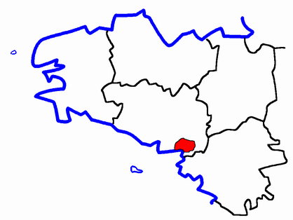 Description: Map for localisazion of cantons of Bretagne region in France Source: made by Hervé Tigier in april 2005 from another large map (published in 1990)